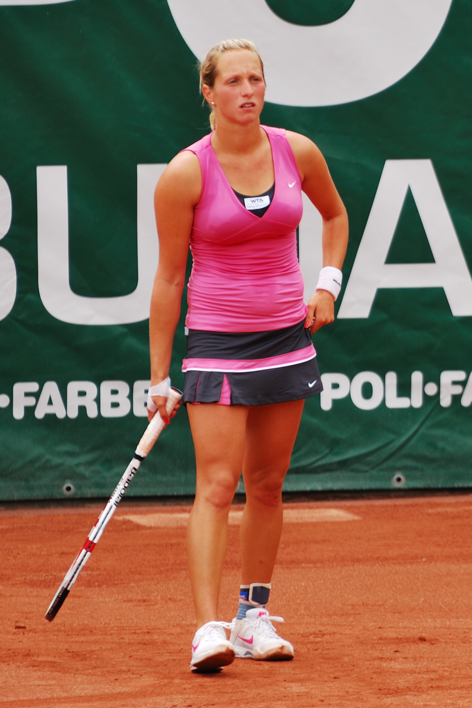 Réka Luca Jani in Budapest (2011)